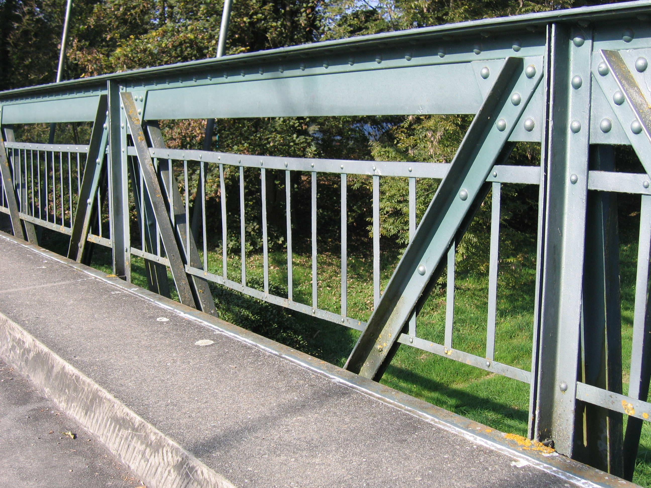 Germany - Baden-Württemberg - Bodenseekreis - Kressbronn/Langenargen: suspension bridge